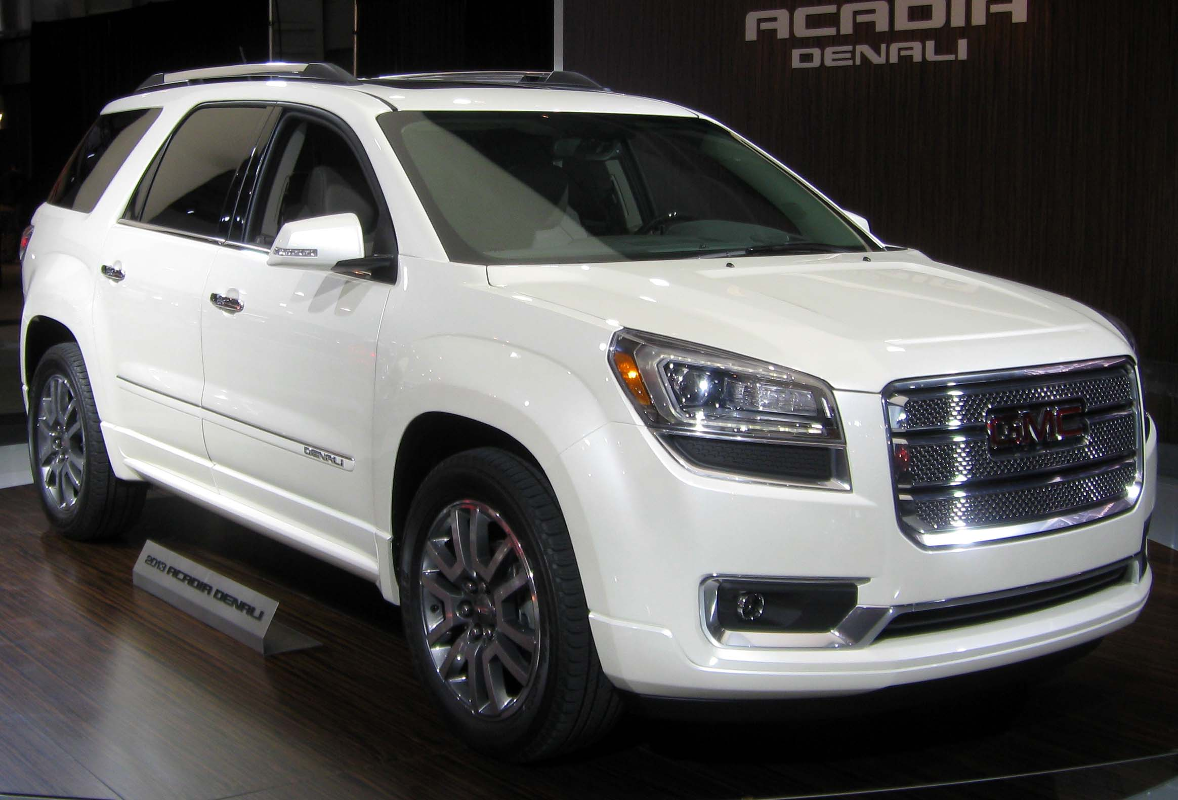 2013 GMC Acadia photographed at the 2012 New York International Auto Show.